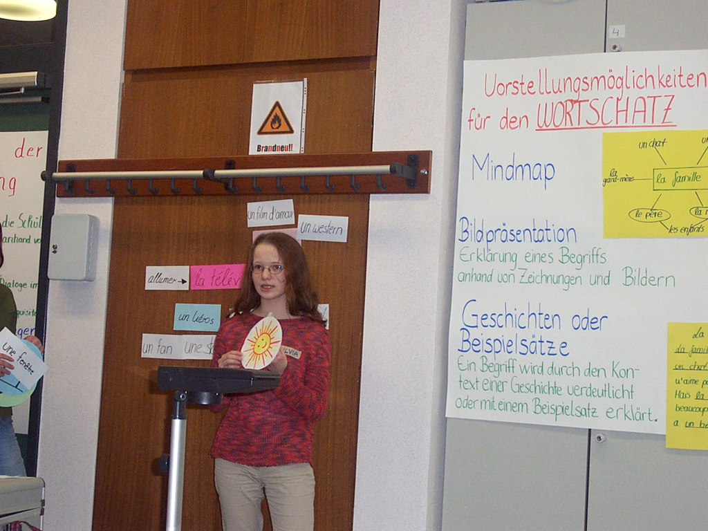 Classroom scene, student as teacher